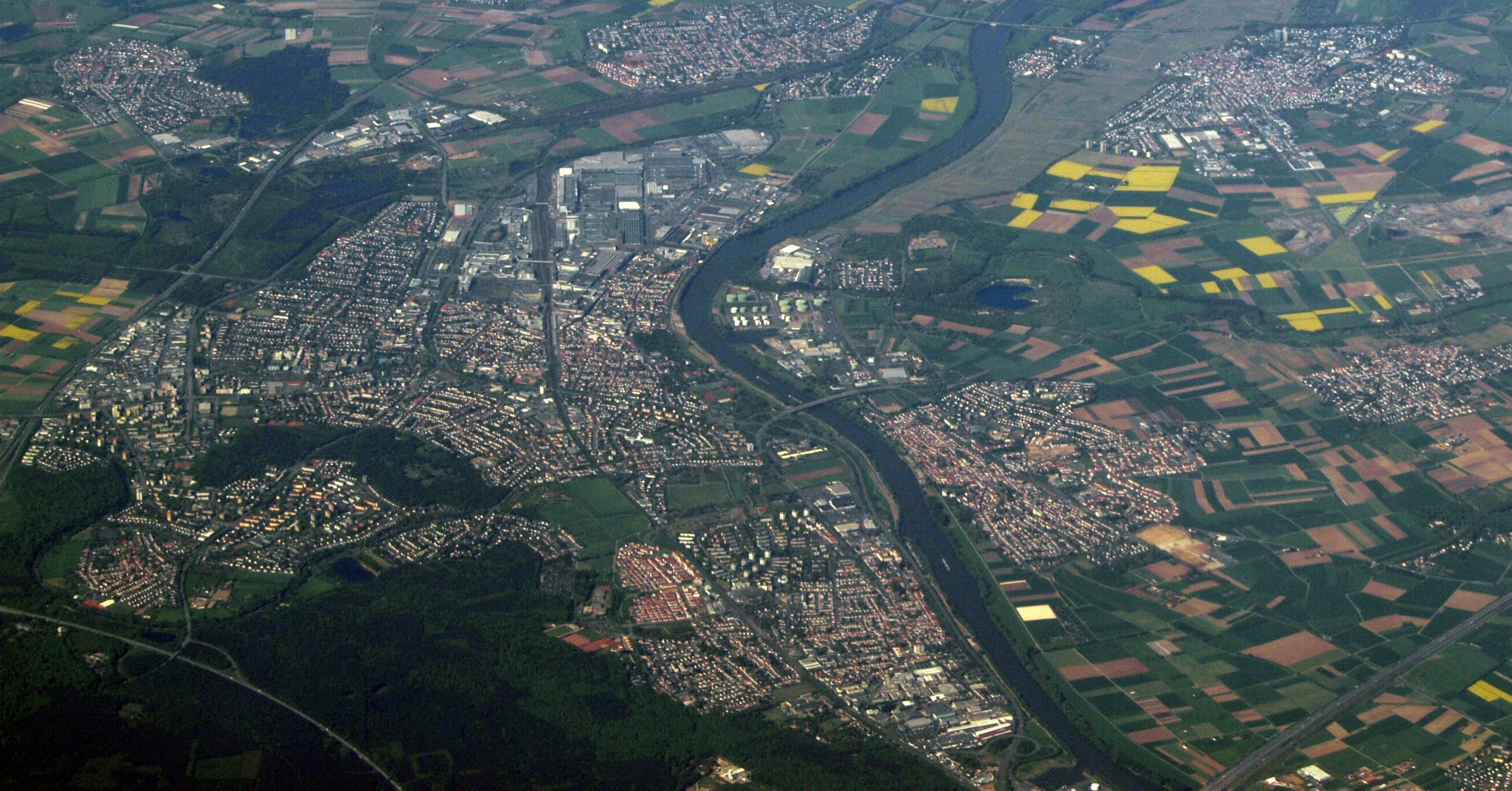 description: Aerial view of Rüsselsheim at the left side of the Main river